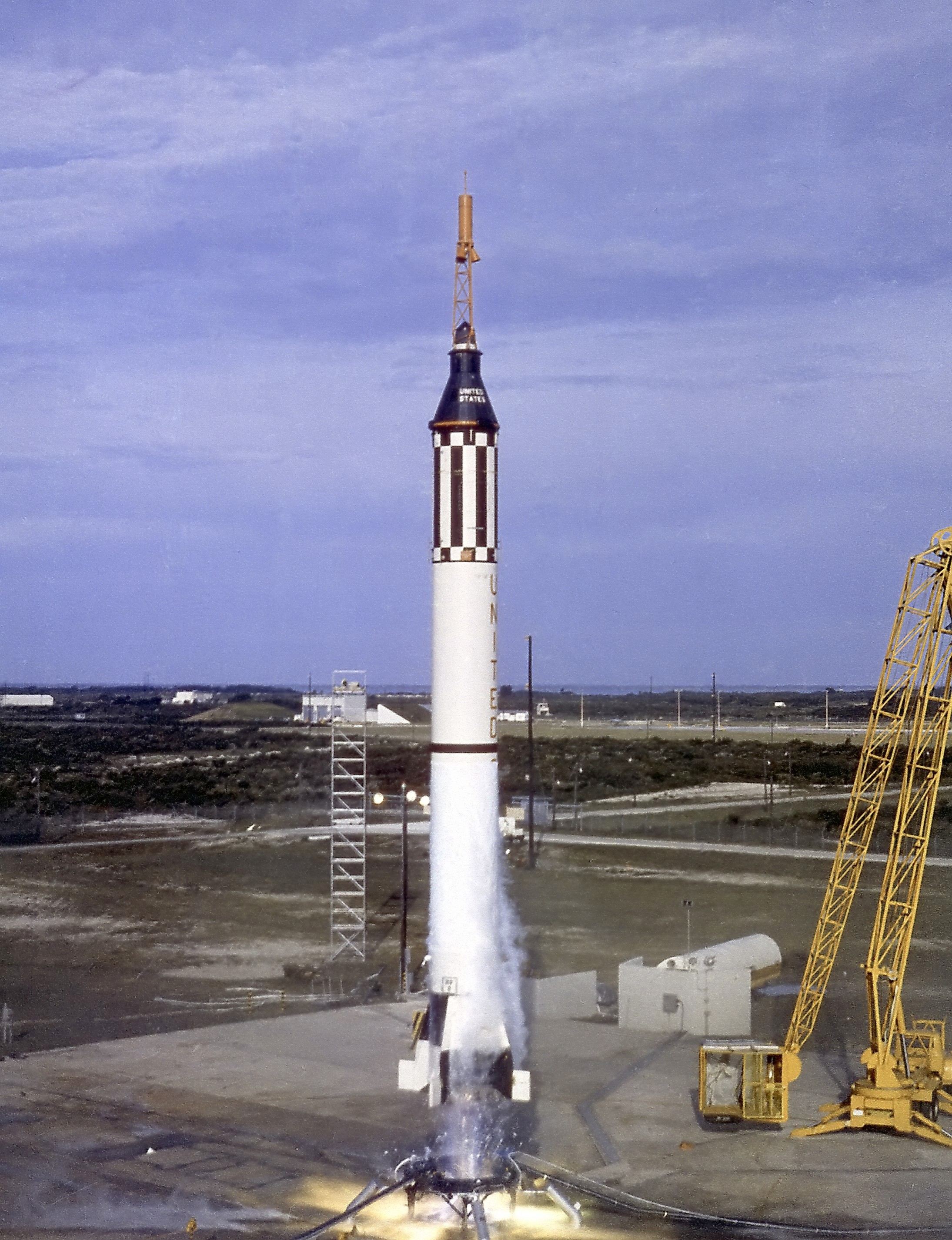 Liftoff of Mercury-Redstone 4 (MR-4), Liberty Bell 7, on July 21, 1961. The MR-4 mission was the second U.S. manned sub-orbital flight and carried astronaut Virgil "Gus" Grissom into space aboard the Liberty Bell 7 spacecraft for a duration of 15-1/2 minutes.